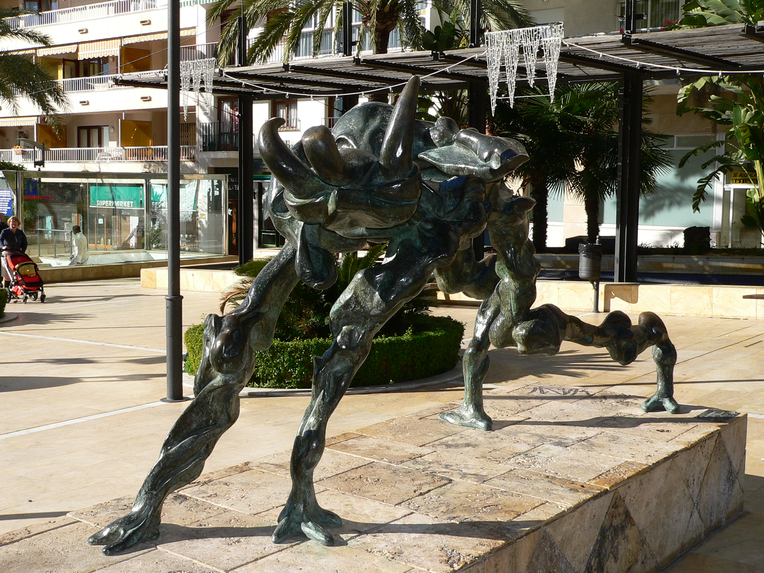 Description: Elefante cósmico Subject: Sculpture Artist : Salvador Dalí City : Marbella Country : Spain Photographer: © Manuel González Olaechea y Franco Shot date : January, 3rd, 2006